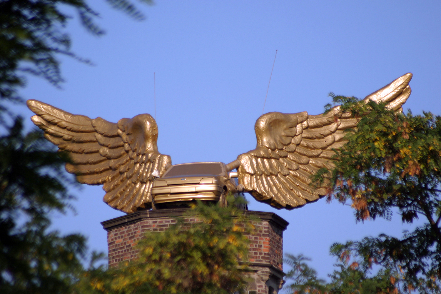 Artwork "Flügelauto" of HA Schult, Cologne, Germany